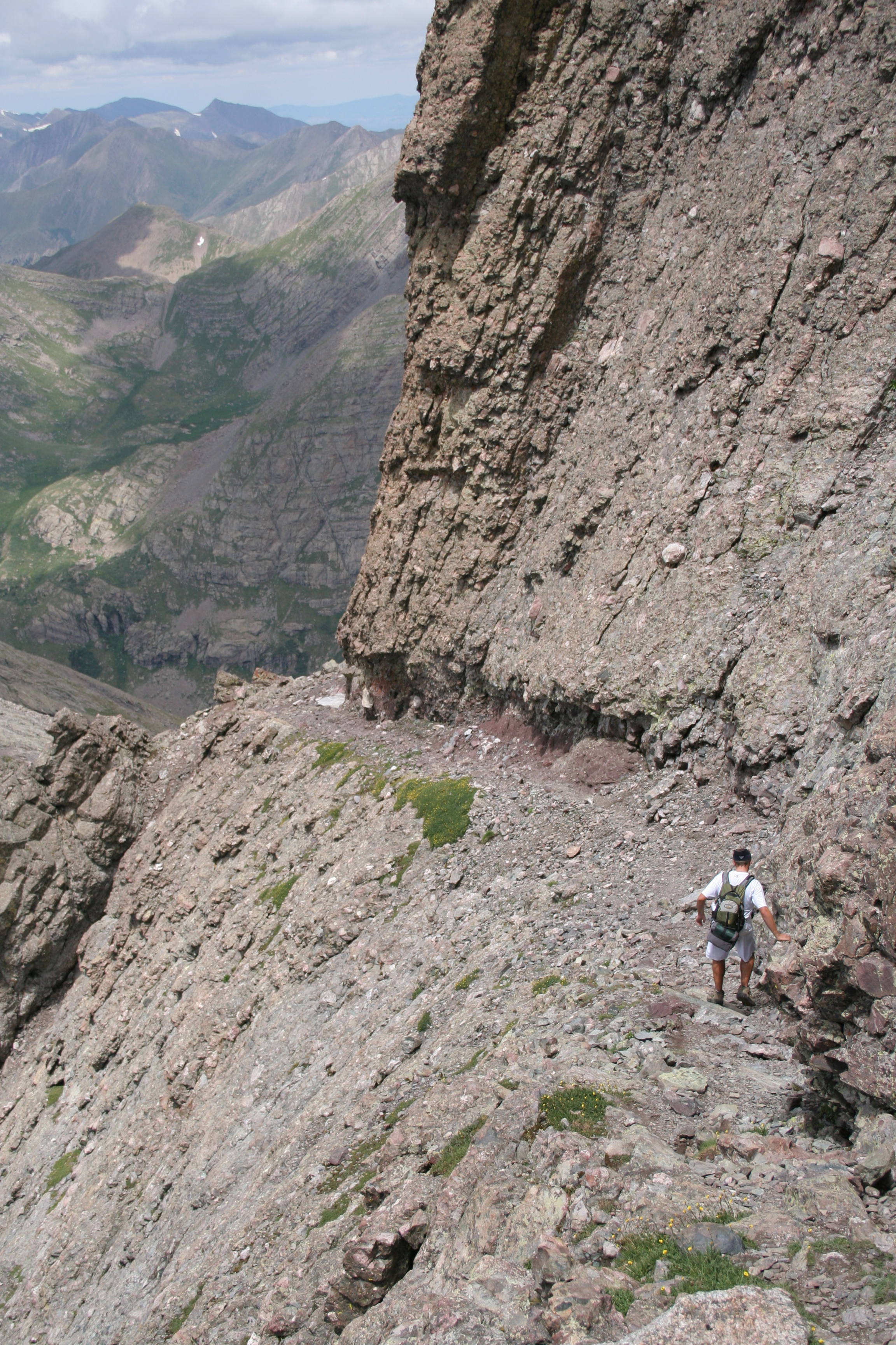 A climber descending Kit Carson Avenue towards Challenger Point